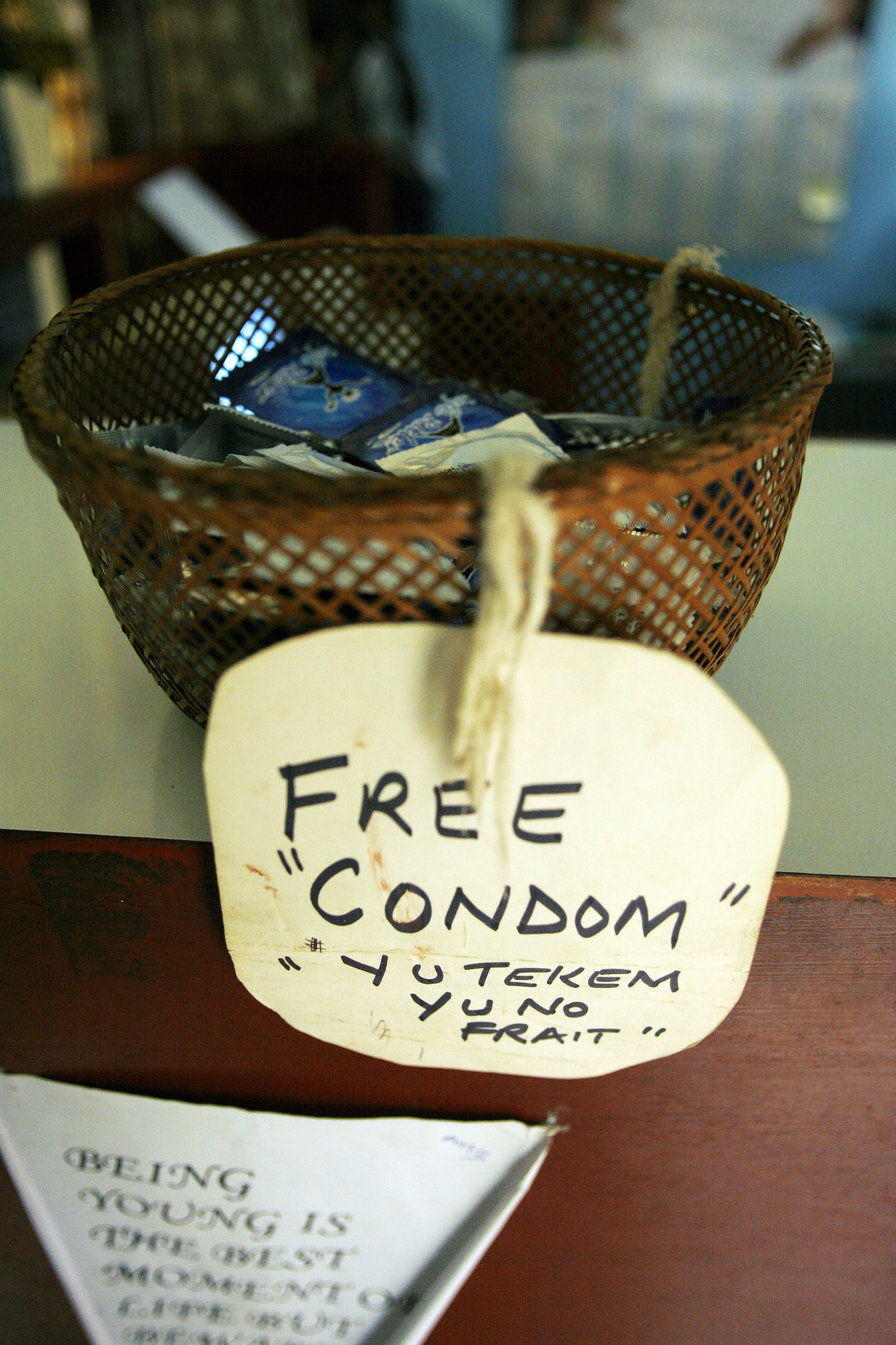 Condoms being given away during a community theatre performance about HIVAIDS. Vanuatu, 2007.